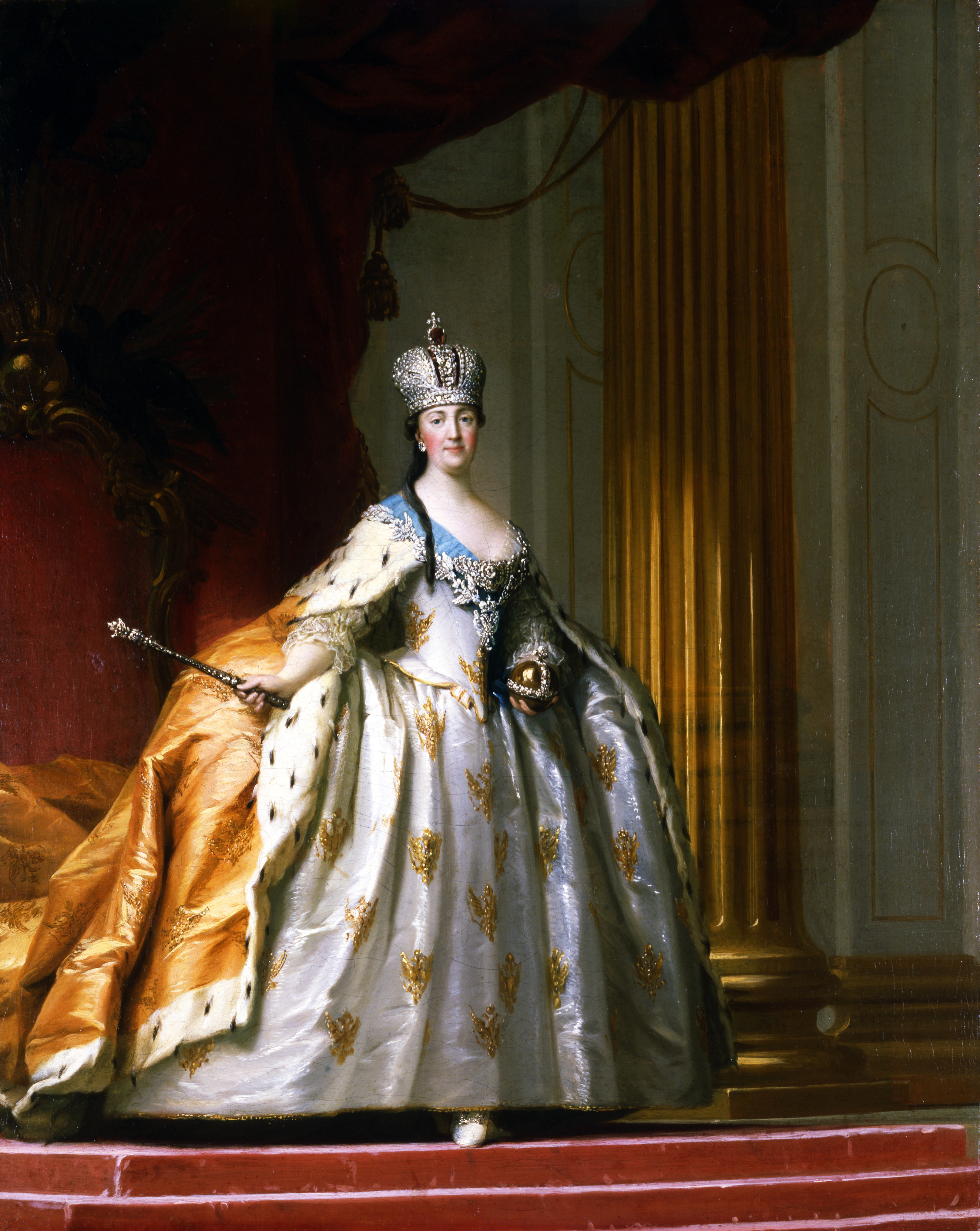 Catherine the Great in her Coronation Robe